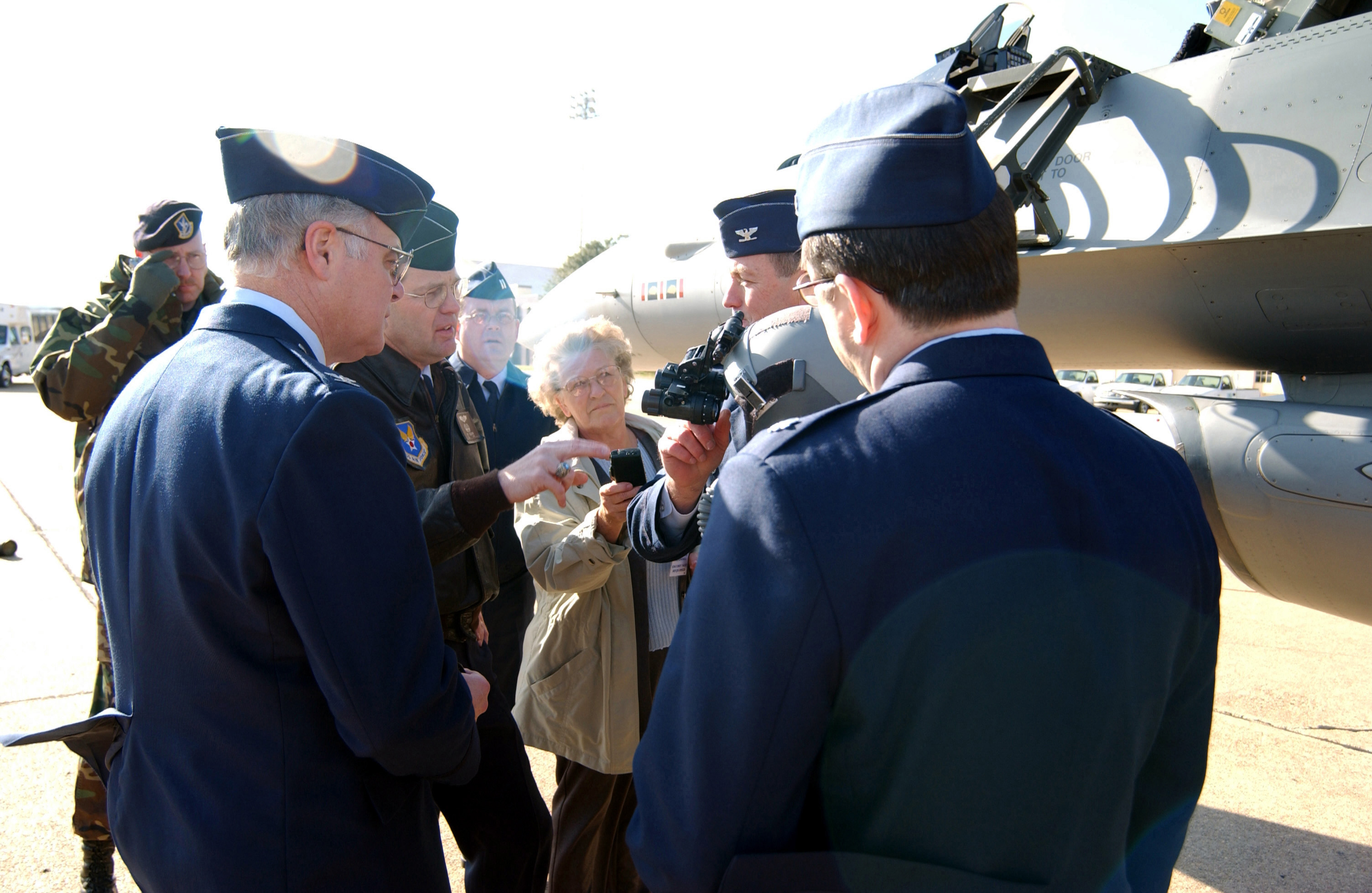 On the flightline next to a US Air Force (USAF) F-16 Fighting Falcon, USAF Colonel (COL) Robert Murphy (right center), Commander, 183rd Fighter Wing, Illinois Air National Guard (ILANG), briefs USAF COL Patrick Rosenow (in leather jacket), Article 32 Investigating Officer, on aspects of the pilot's HGU-55/P helmet with AN/AVS-9 Night Vision Goggles (NVG) attached. USAF COL Rosenow is investigating the Tarnak Farms Friendly Fire incident that killed four Canadian soldiers and injured eight near Kandahar, Afghanistan. The Article 32 hearing is an investigation of the charges against the pilots to determine whether to try by court-martial.